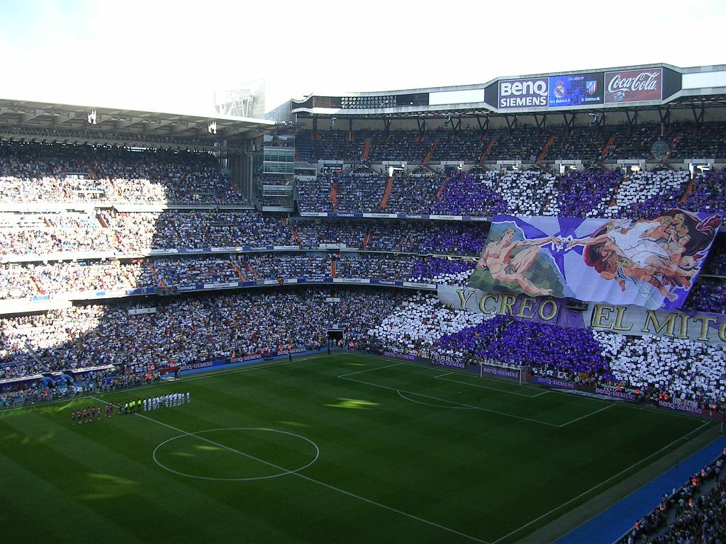 Visual of the Bernabeu during the teams' presentation in the match Real Madrid - Atletico of the 2006-07 season.